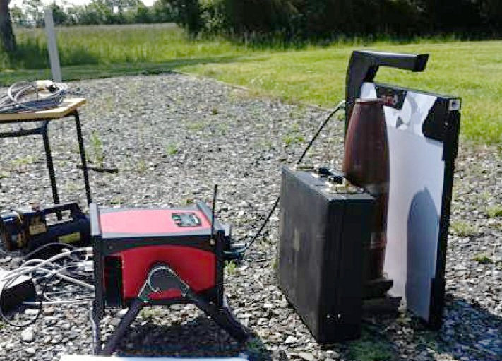 A portable Xray generator (GemX) and a portable flat panel (DeReO) are used to inspect a suspicious carrying case (potential IED - Improvised Explosive Device).